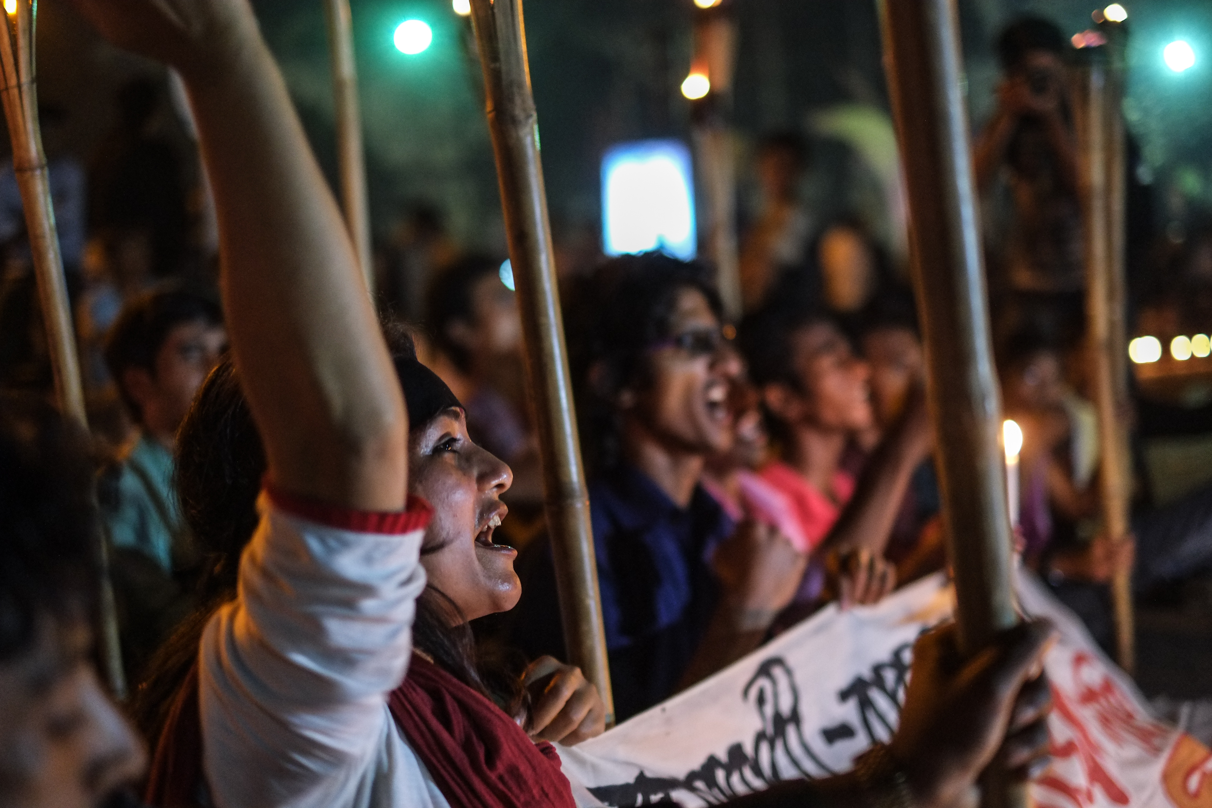 Uprising of people at Shahbag, Dhaka, Bangladesh demanding death penalty of Kader Molla and all other war criminals who are now being tried before the International Crimes Tribunal Bangladesh for the serious crimes they have committed during the Liberation War of Bangladesh in 1971. Perpetrators of war crimes, genocide and crimes against humanity have NO place in Bangladesh. This is public opinion. BACKGROUND: On 5 February 2013, International Crimes Tribunal-2 delivered judgment against Kader Molla, who was accused of rape of minor and at least 350 murders. Tried for his crimes against humanity, his crimes were proven beyond reasonable doubt, according to the judgment. However, the Tribunal comprising of Mr Shahinur Islam, Obaidul Hasan Shahin and Mojibur Rahman awarded Kader Molla life sentence, instead of death penalty which the accused deserved. People, rejecting this lenient sentence, has risen, in Dhaka and other cities in Bangladesh.